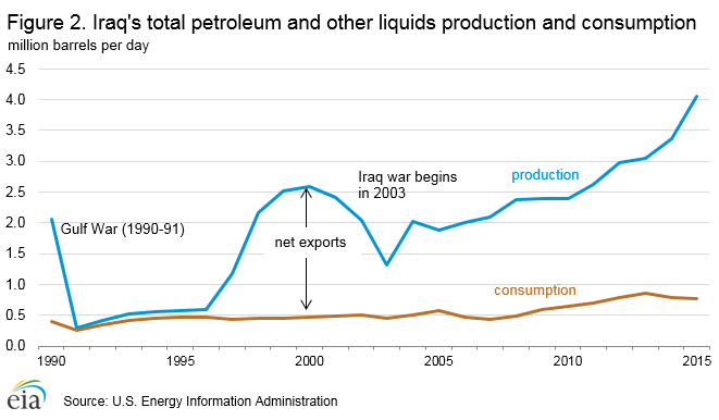 Crude oil production in Iraq, 1990-2015